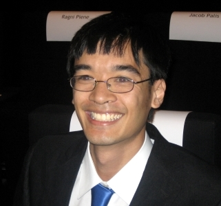 Terence Tao at the ICM 2006 in Madrid